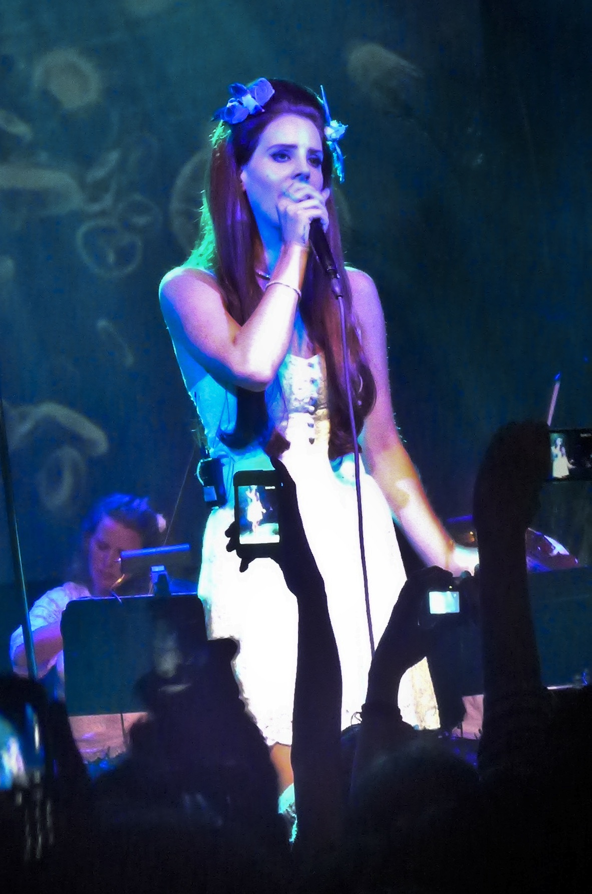 Lana Del Rey performing at Irving Plaza